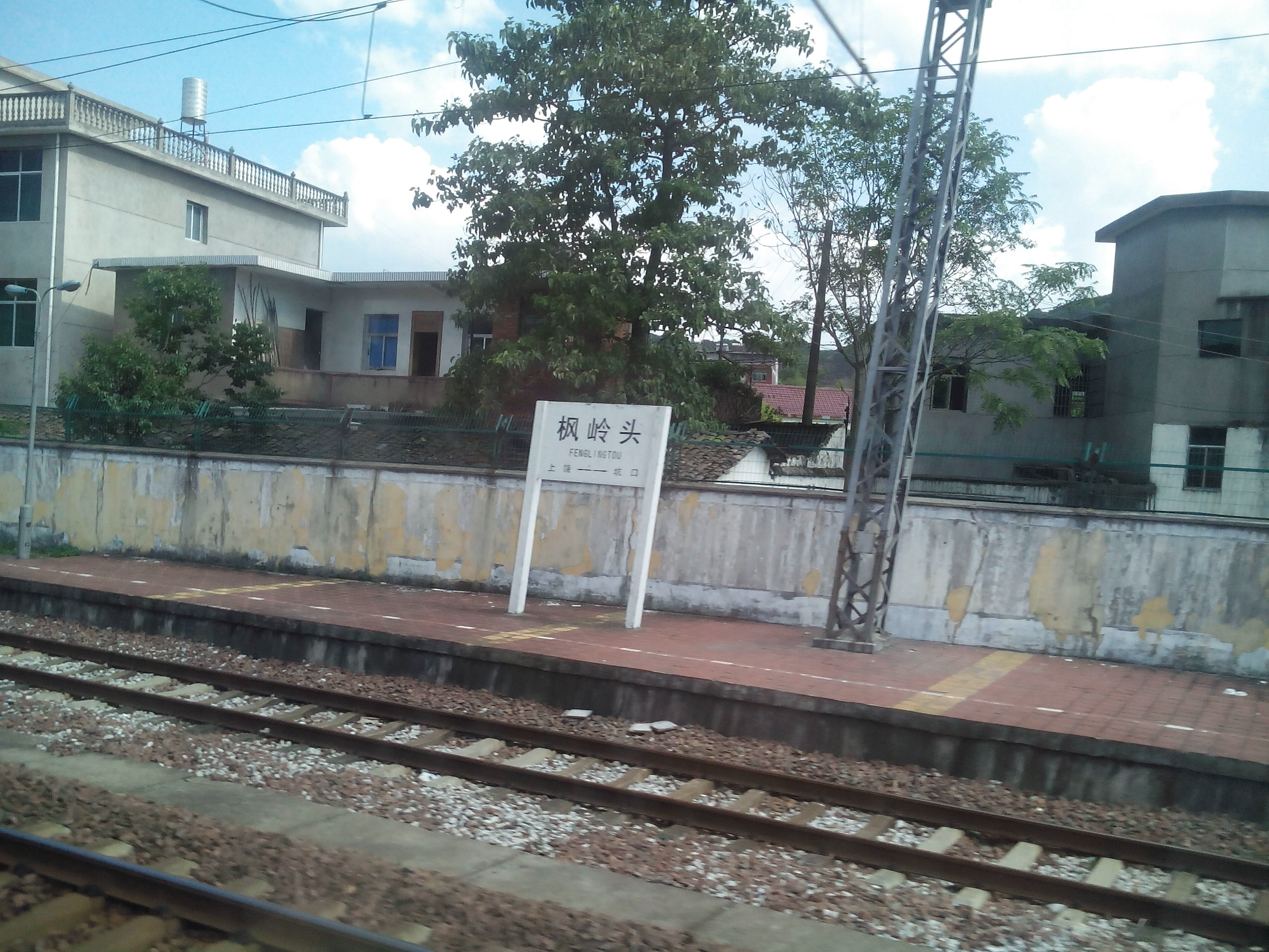 Fenglingtou Railway Station